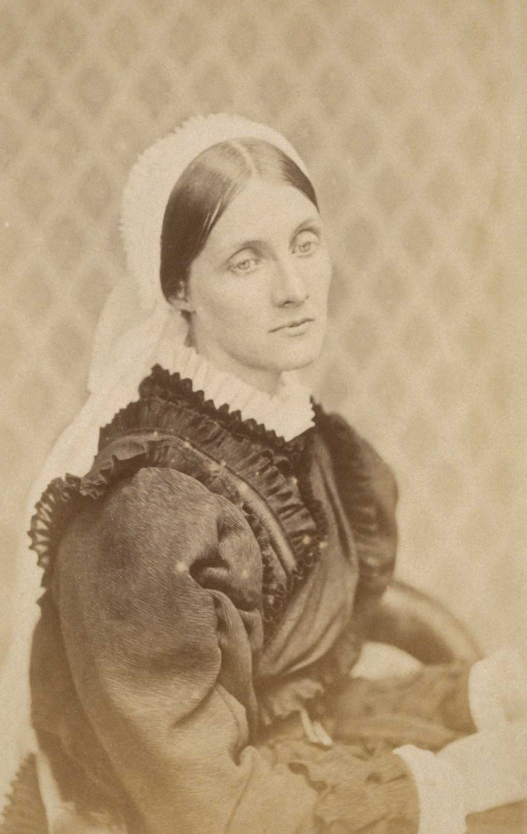 Photographic portrait of Julia Duckworth in the early 1870s